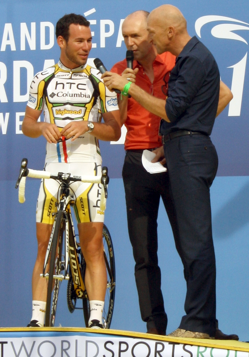 Mark Cavendish at the team presentation of the 2010 Tour de France in Rotterdam